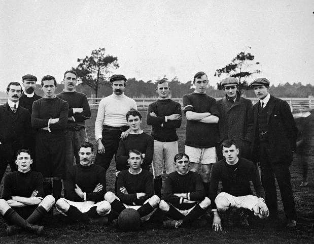 St Kilda British Football Club players posing at the Middle Park section of Albert Park and Lake. This is one of the earliest known photographs of a British (Association) football club in Australia.